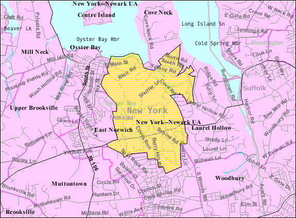 U.S. Census 2000 reference map for Oyster Bay Cove, New York